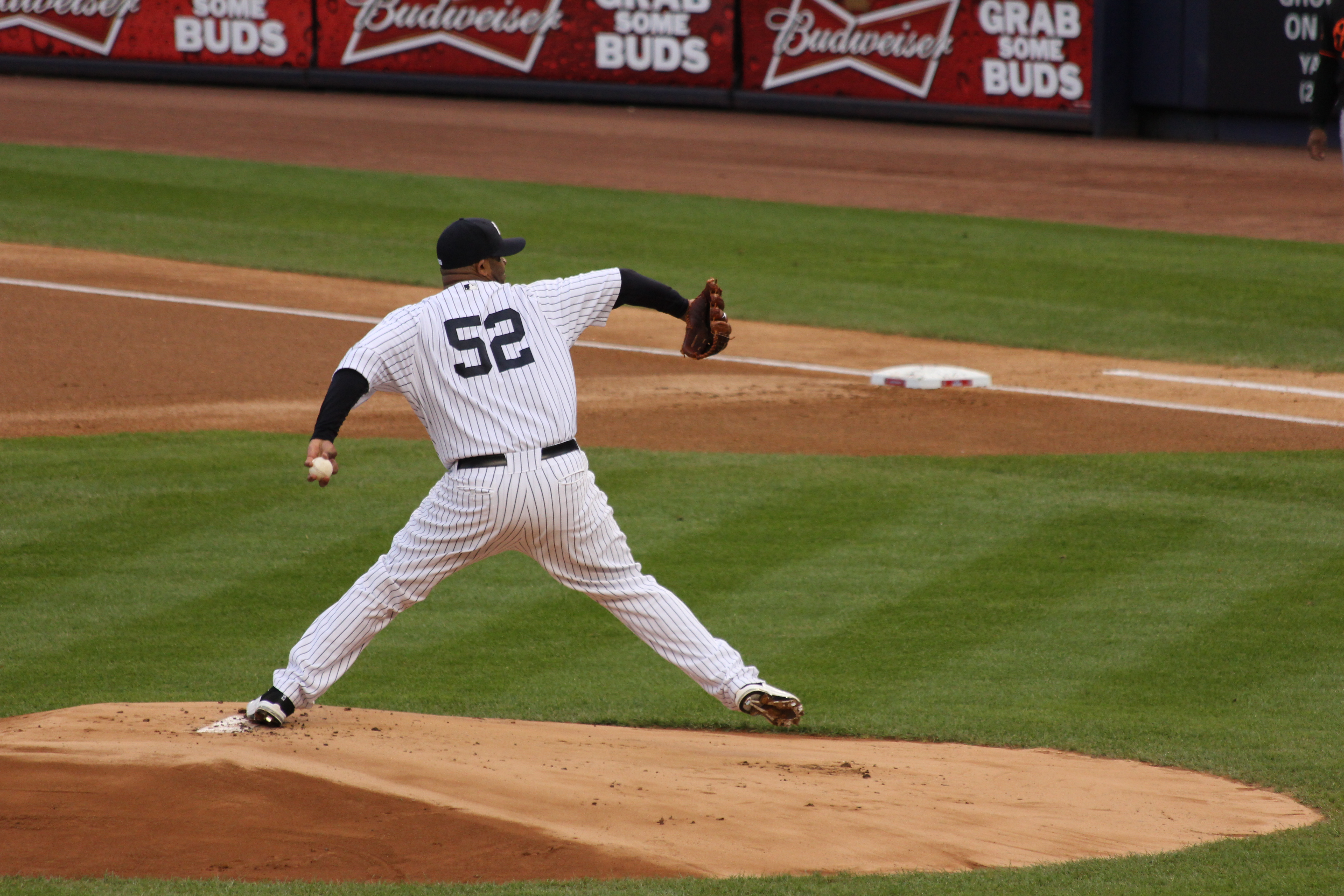 New York Yankees pitcher CC Sabathia pitching against the Baltimore Orioles during Game 5 of the American League Division Series at Yankee Stadium in the Bronx, New York, NY on October 12, 2012